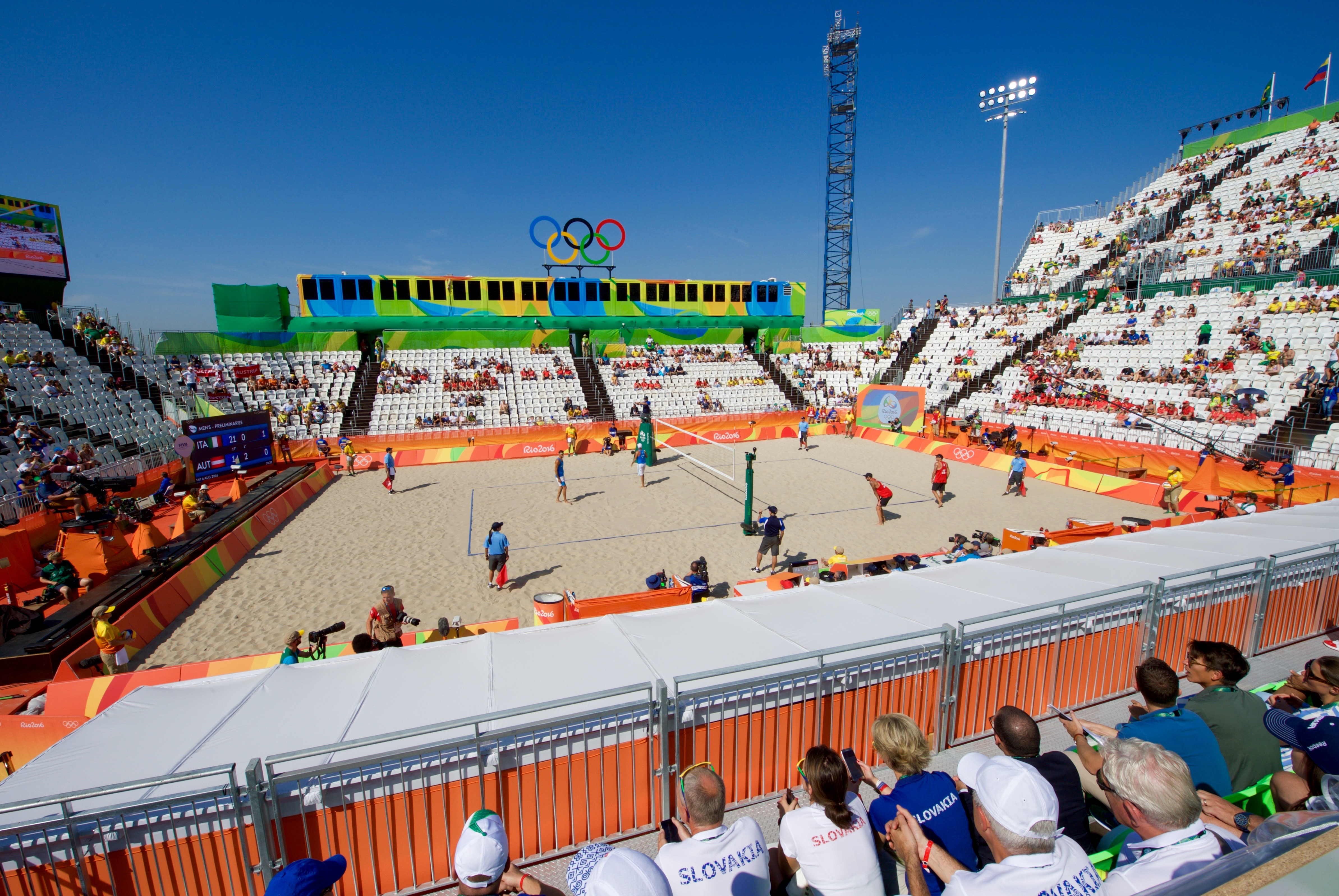 The venue for Olympic beach volleyball on the Copacabana beach in Rio de Janiero, Brazil, as seen while U.S. Secretary of State John Kerry and his fellow members of the U.S. Presidential Delegation visit the Summer Olympics on August 6, 2016. [State Department Photo/ Public Domain]